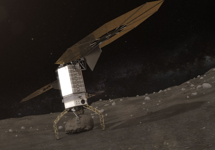 Asteroid capture microspine grippers on the end of the robotic arms are used to grasp and secure a boulder from a large asteroid. Once the boulder is secured, the legs will push off and provide an initial ascent without the use of thrusters.